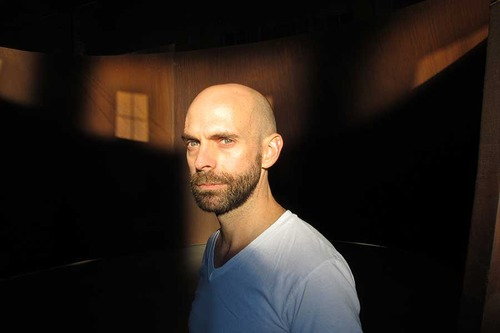 Hans Chew American Rocker